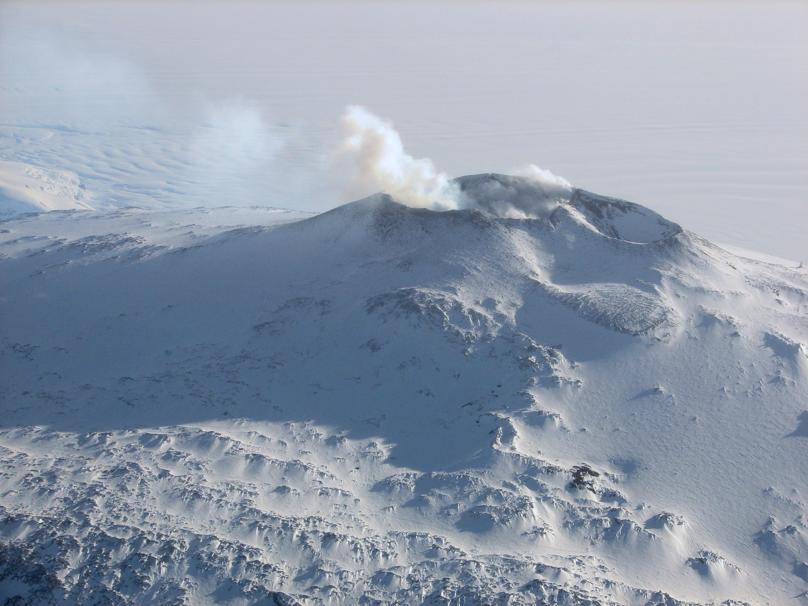 Aerial view of Mount Erebus crater, Ross Island, Antarctica